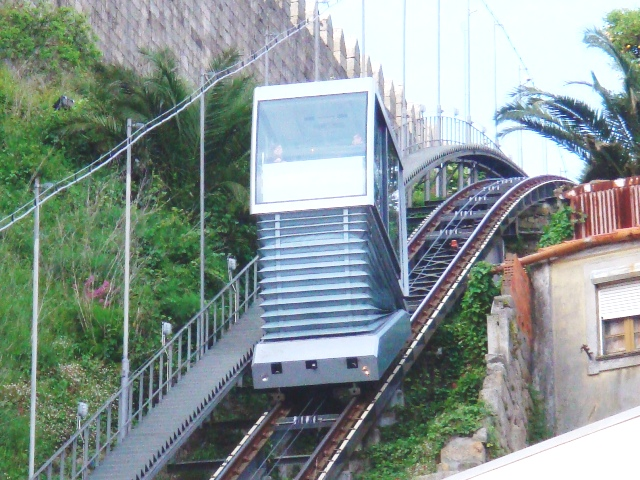 A cable car in Porto, Porto (city)